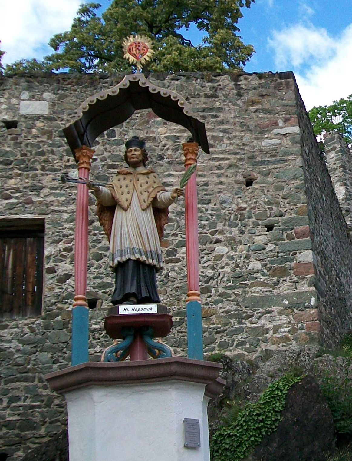 St. John Nepomuk, Martyr Catholic Church - statue in front of the castle Summersberg in Gufidaun